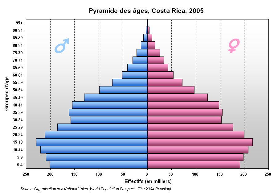 Costa Rica Population pyramid, 2005